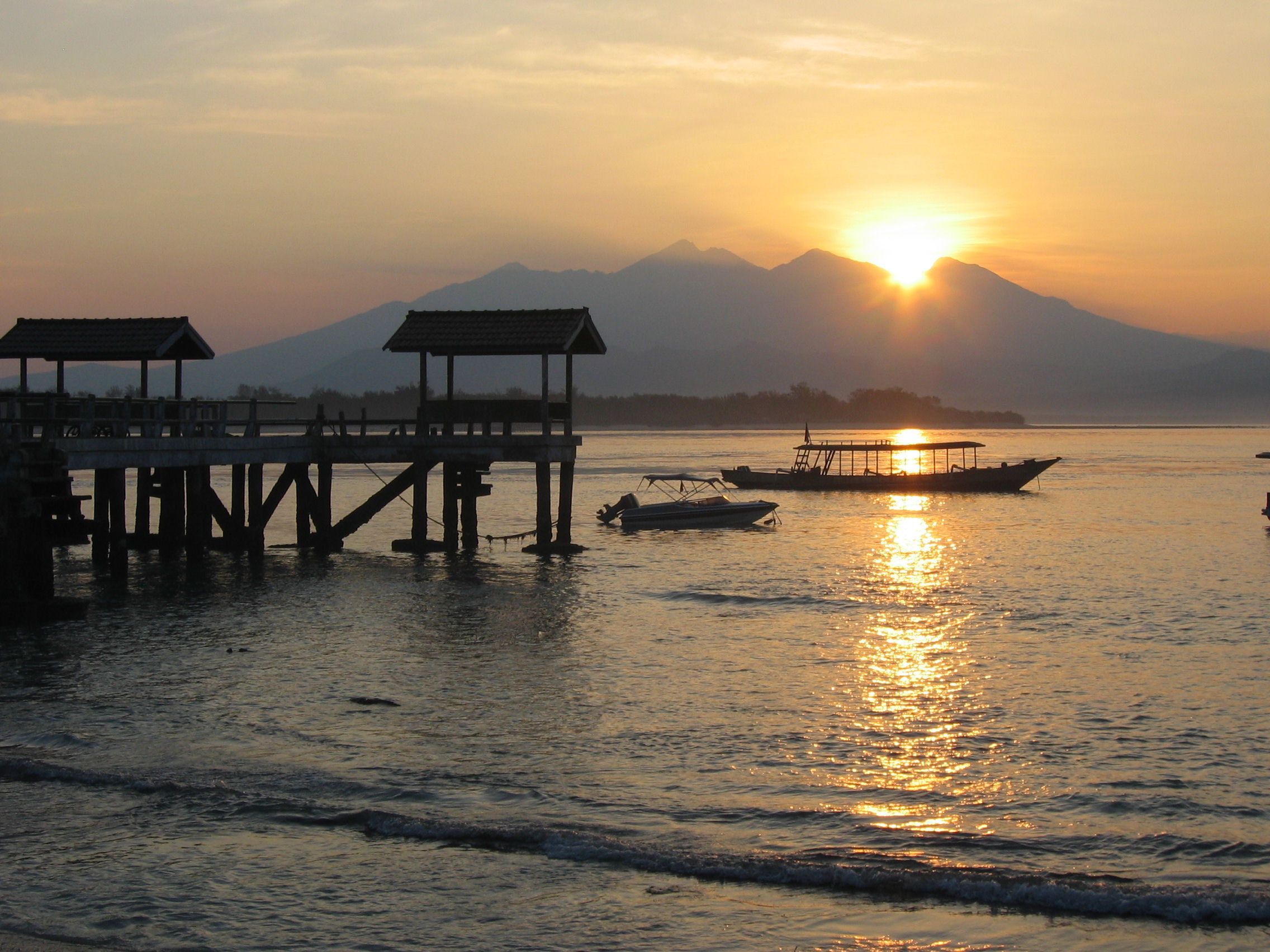 Sunrise on Gili Trwangan with view of Mount Rinjani, Lombok, Indonesia